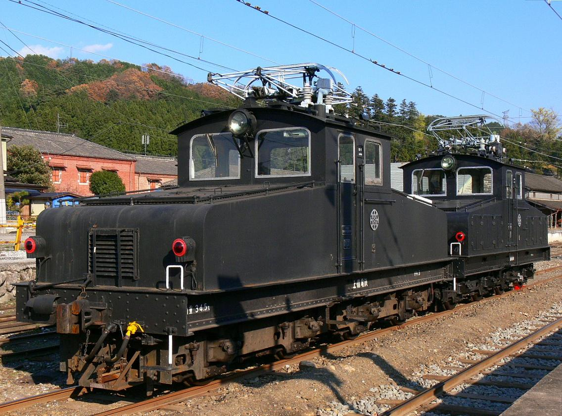 Joshin Electric Railway Class DeKi 1 electric locomotives DeKi 1 and 3 at Shimonita Station